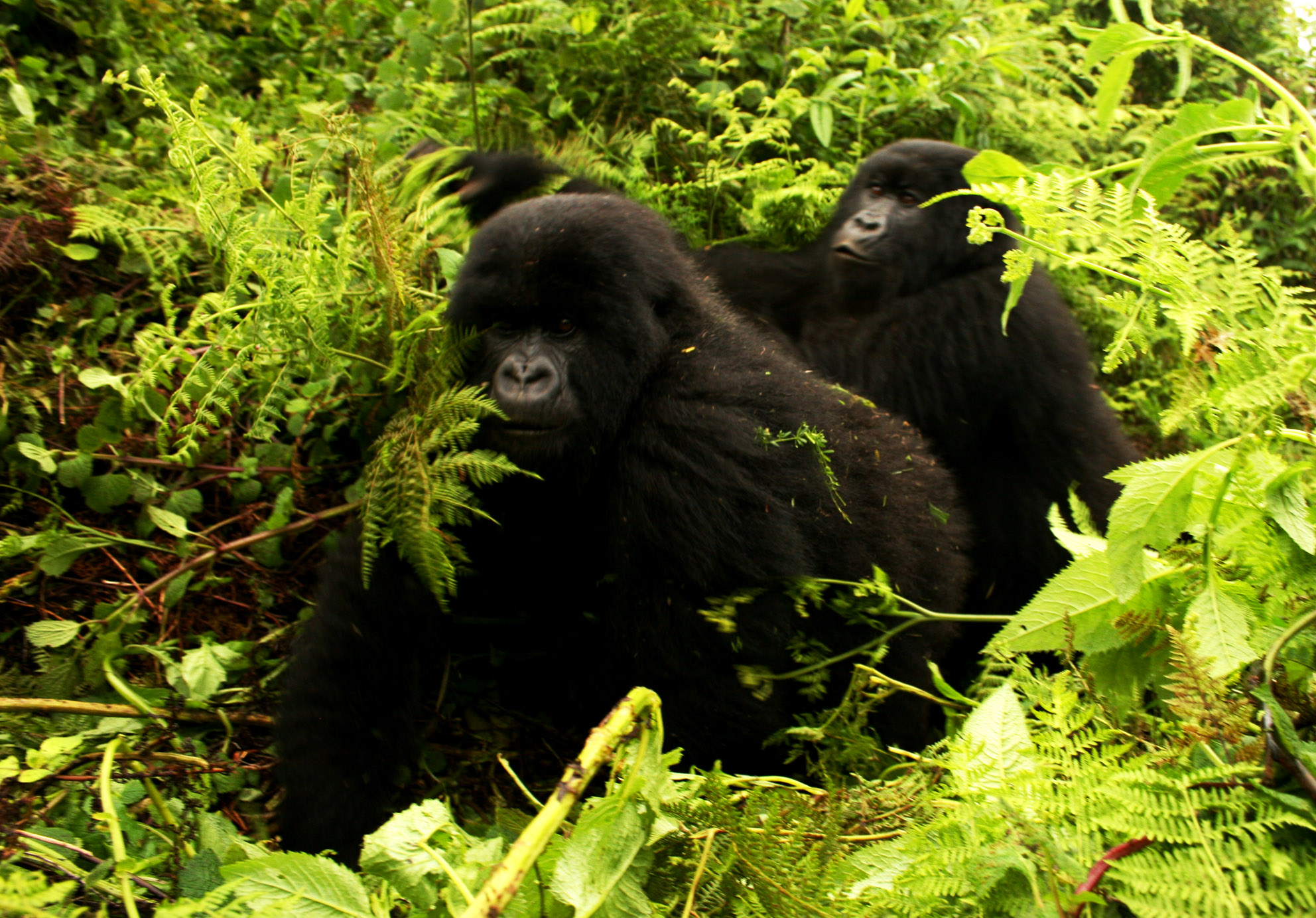 Mountain gorillas, Rwandamoving